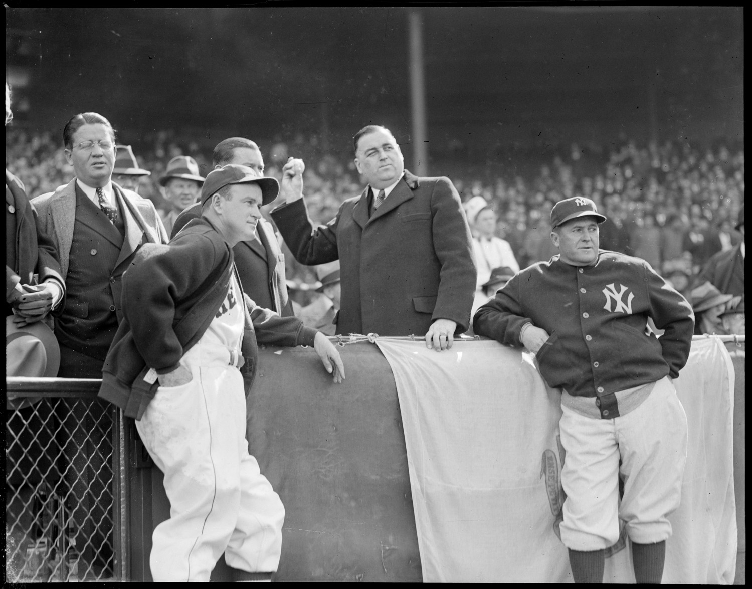 Governor Charles Francis Hurley throws out the first ball as Joe Cronin and Joe McCarthy watch, at Fenway Park on April 23, 1937.